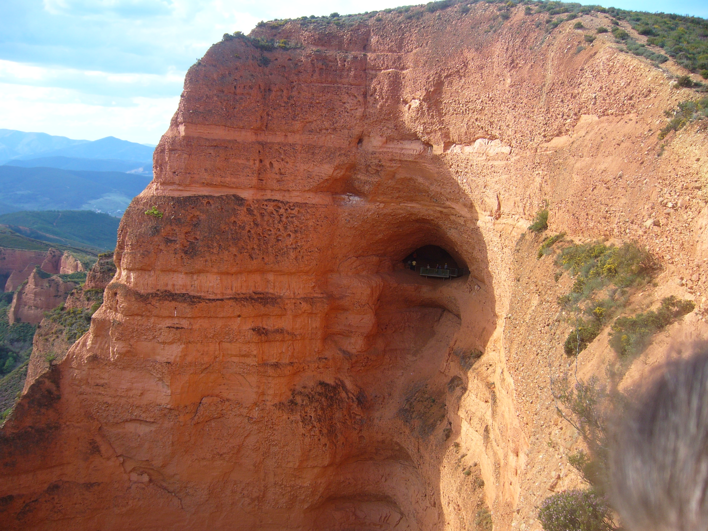 Las Médulas, León, Castilla y León, Spain.